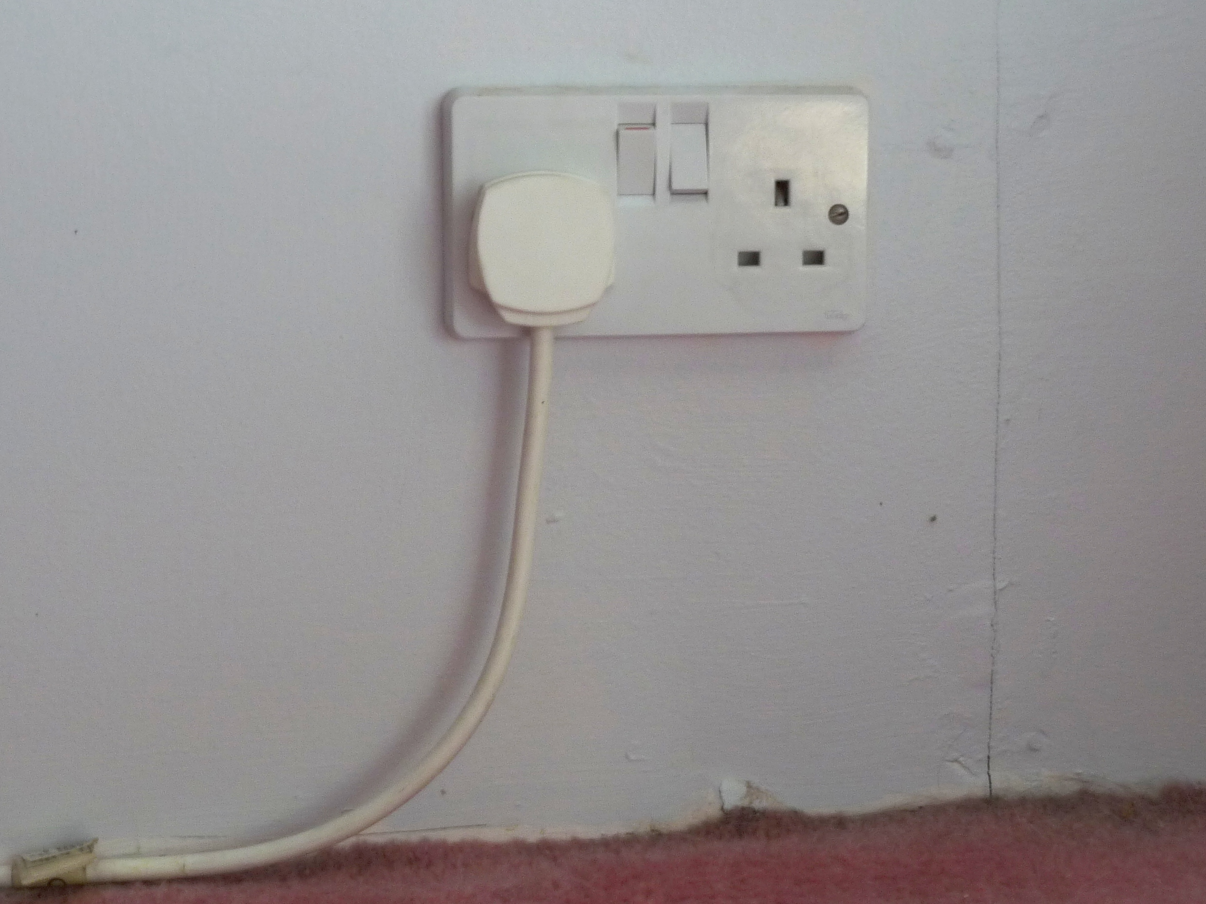 A UK BS 1363 double wall socket for domestic mains electricity. The socket on the left has a BS 1363 plug in it and is switched on. The right socket is empty and switched off.